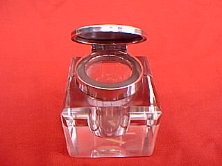 Glass inkwell 2¼" square with rounded shoulders and corners. silver collar, slightly domed and hinged silver top (Hallmark Bimingham 1910). Picture taken by author John Beniston.